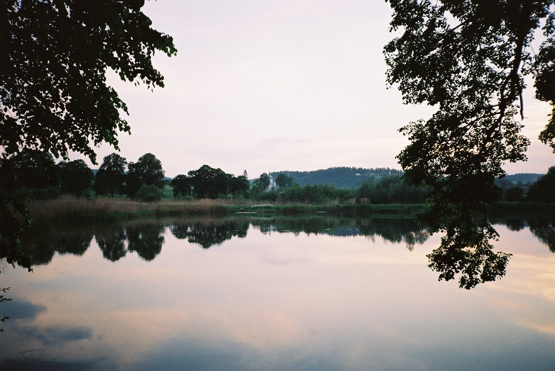 widok na stawy na Wielopolu. W oddali cerkiew.